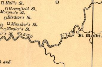 Detail showing the location of several late-18th century frontier forts (or "stations") in the Upper Cumberland River valley of Middle Tennessee, in the southeastern United States. Bledsoe's Station was located in what is now the Castalian Spring community, Mansker's Station was near Goodlettsville, and Fort Blount was just west of modern Gainesboro.